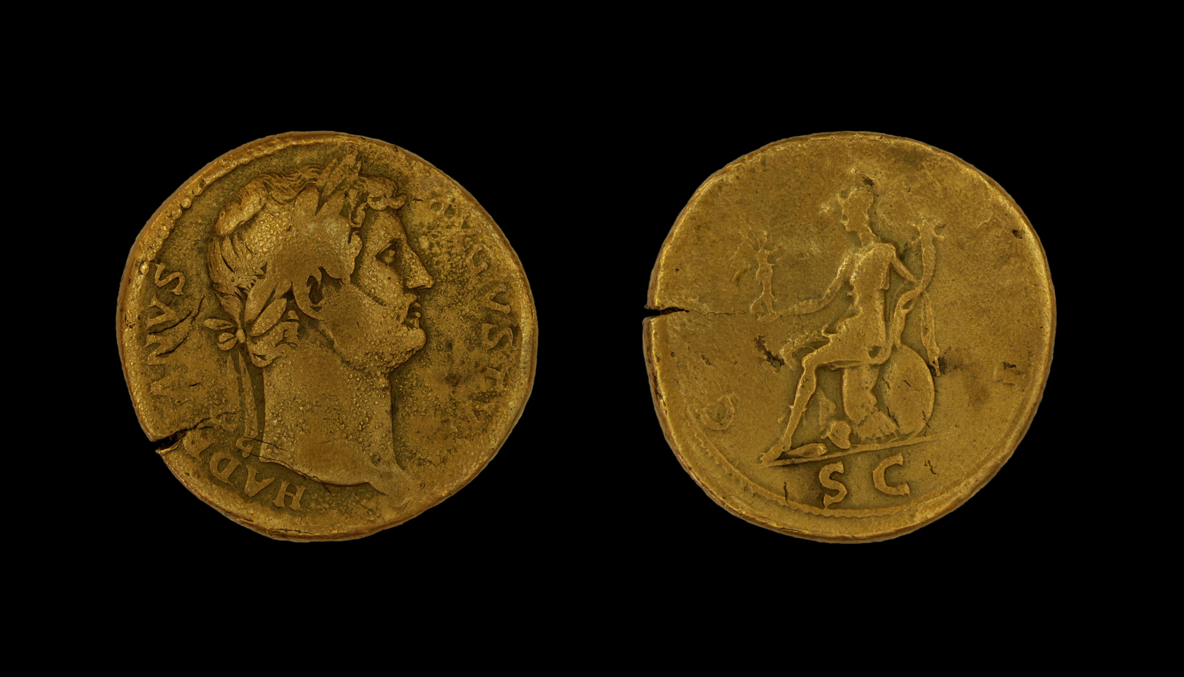 A sestertius of roman Emperor Hadrianus. Brass. Diameter 32mm. Weight 25 gr. One side shows the laureate profile of the emperor "Hadrianus Augustus", the other side shows Rome sitting, holding "Victory" and a cornucopia. "S C" means "Senatus Consulto". Found in the river Garonne near Bordeaux in 1965, from a shipwreck in 155 or 156 CE.